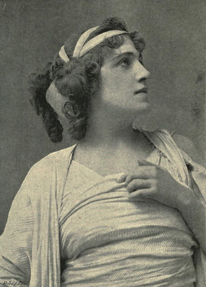 Portrait of Julia Neilson